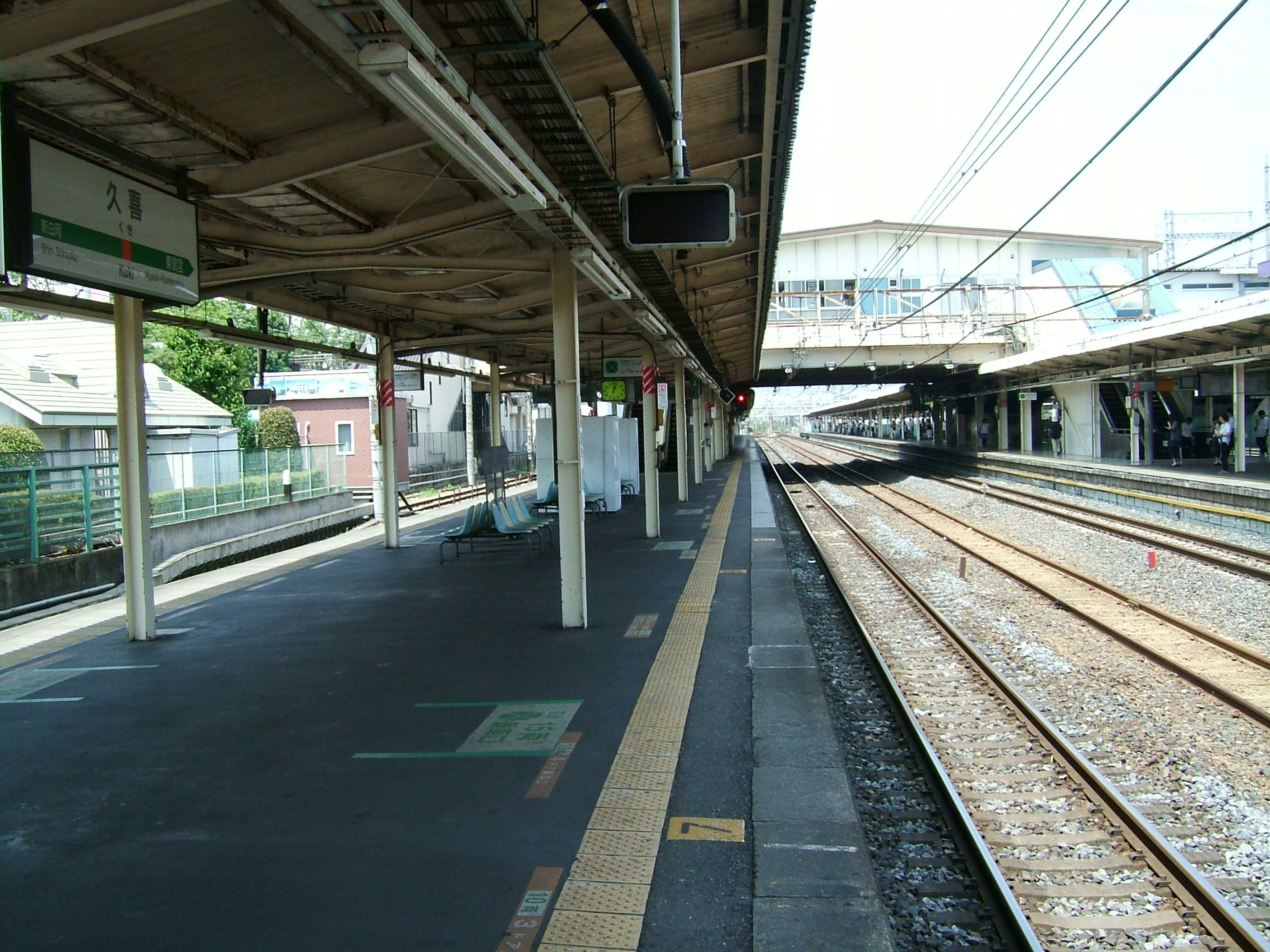 Kuki Station platform (East Japan Railway Tōhoku Main Line)